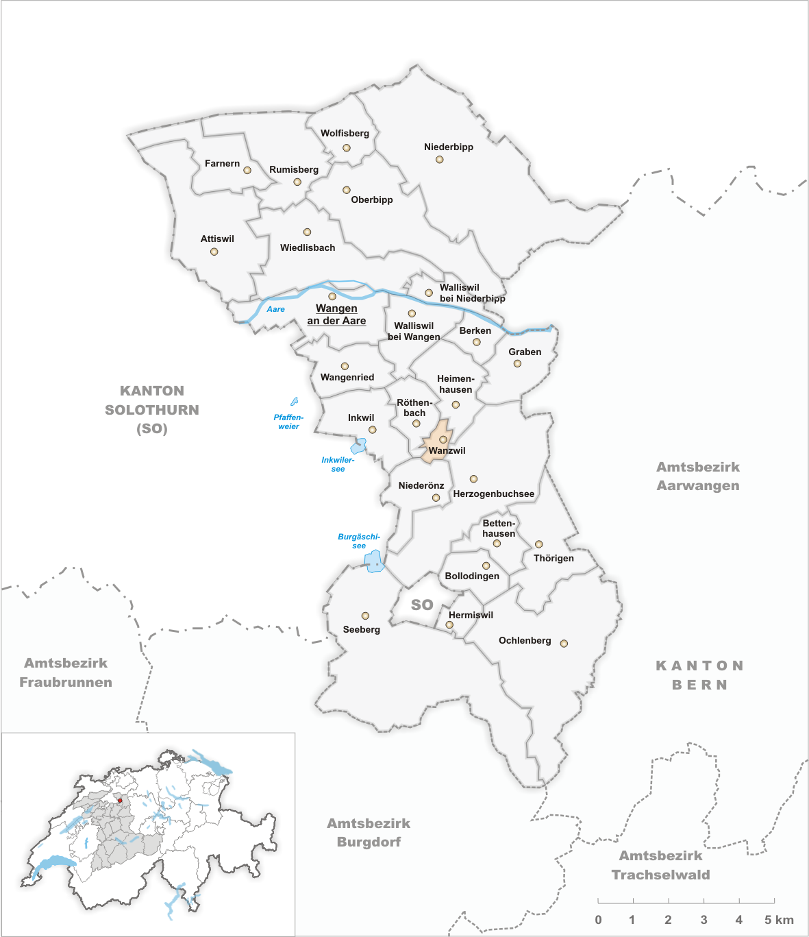 Municipality Wanzwil